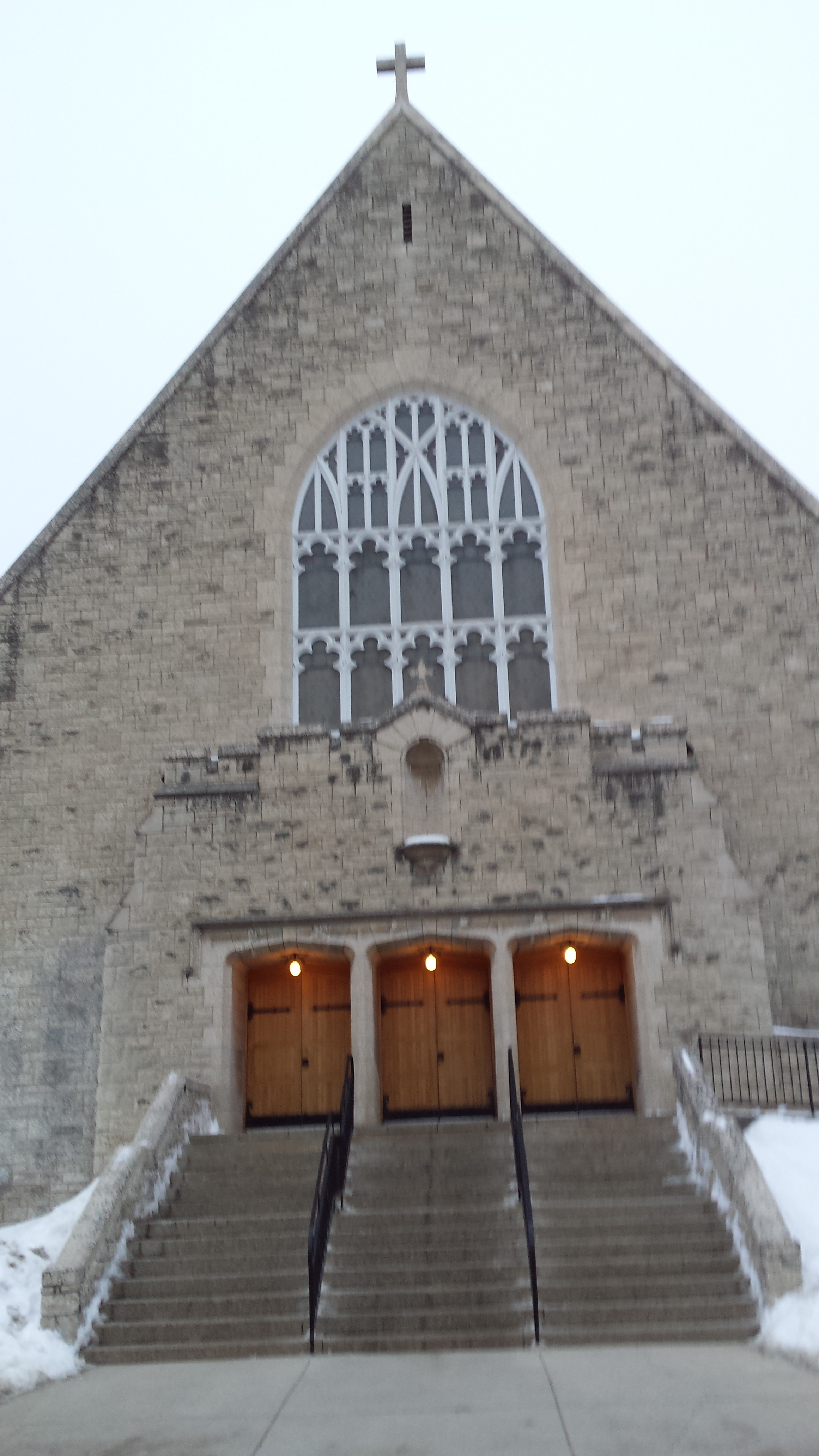 St. Ignatius of Loyola Roman Catholic Church, Winnipeg